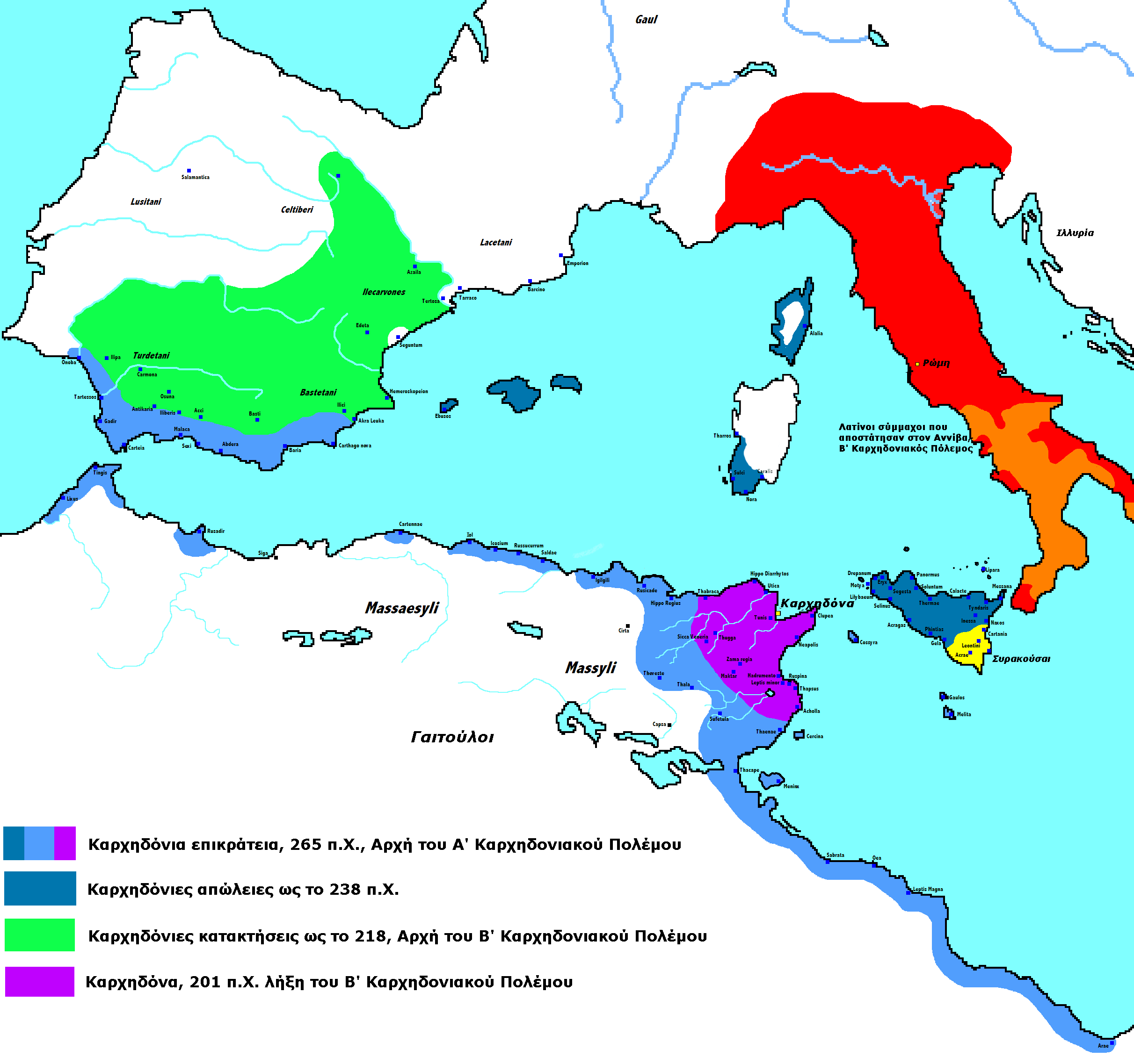 Greek translation of File:Carthaginianempire.PNG